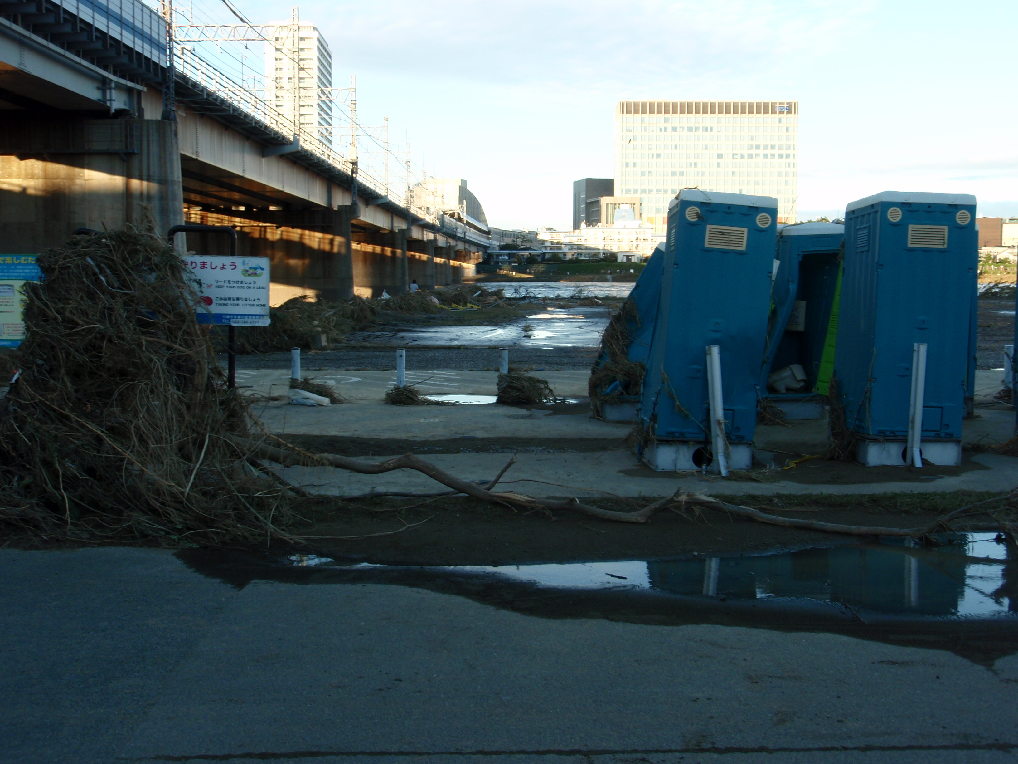 Tamagawa riverside after Typhoon Hagibis (2019), at Seta, Takatsu Ward, Kawasaki City, Kanagawa Prefecture, Japan.